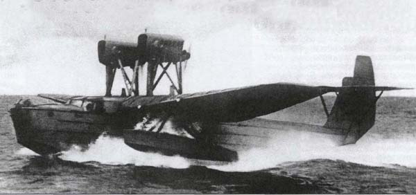 Tupolev ANT-8 (MDR-2) during flight tests in 1931